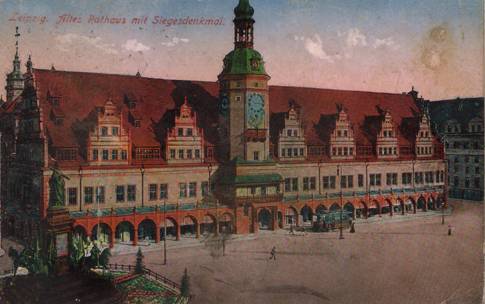 Old Town hall Leipzig Germany from a 1922 Postcard